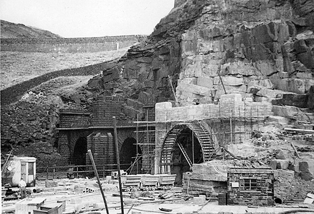 Woodhead Tunnels, western portals. View northwards: New (double-line) tunnel in foreground, two portals of Old (single-line) tunnels (Down and Up).